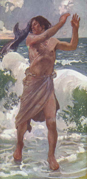 Jonah, as in Jonah 2:10, "And the Lord commanded the fish, and it vomited Jonah onto dry land.";watercolor circa 1896–1902 by James Tissot